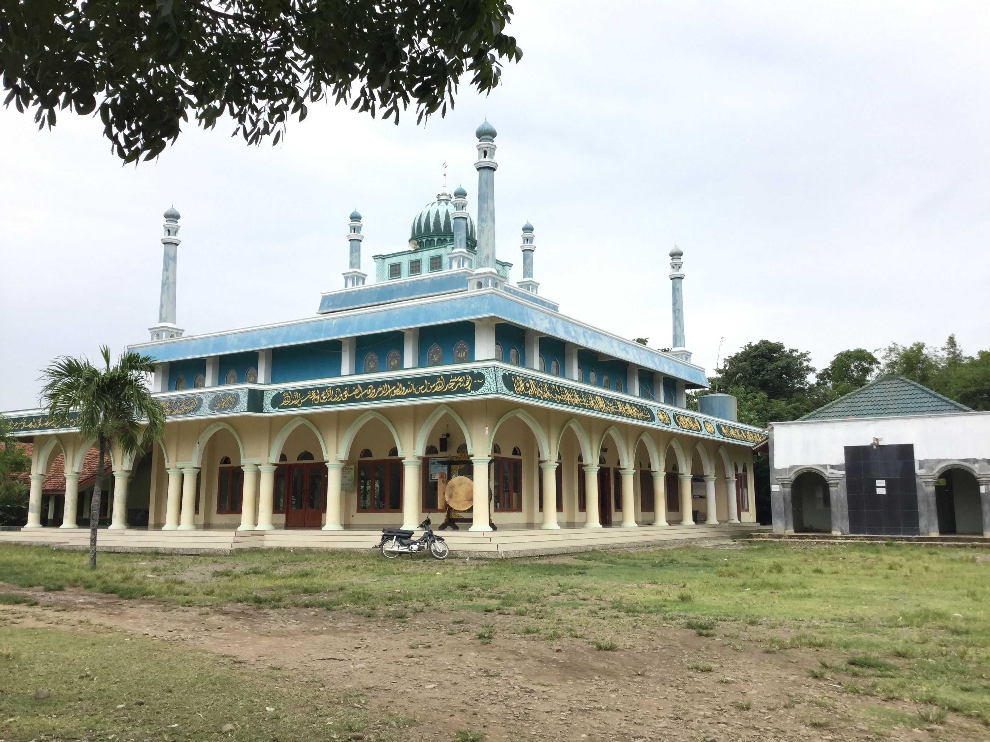 An-Nur Great Mosque in Kertanegara, Haurgeulis, Indramayu, West Java, Indonesia